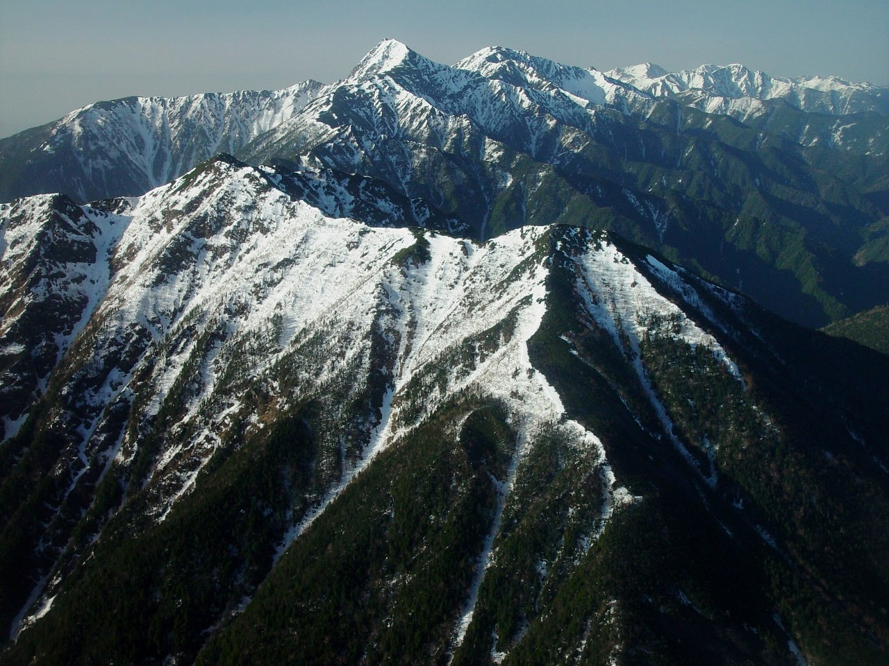 Mount Kita (Akaishi Mountains) as seen from Mount Kaikoma